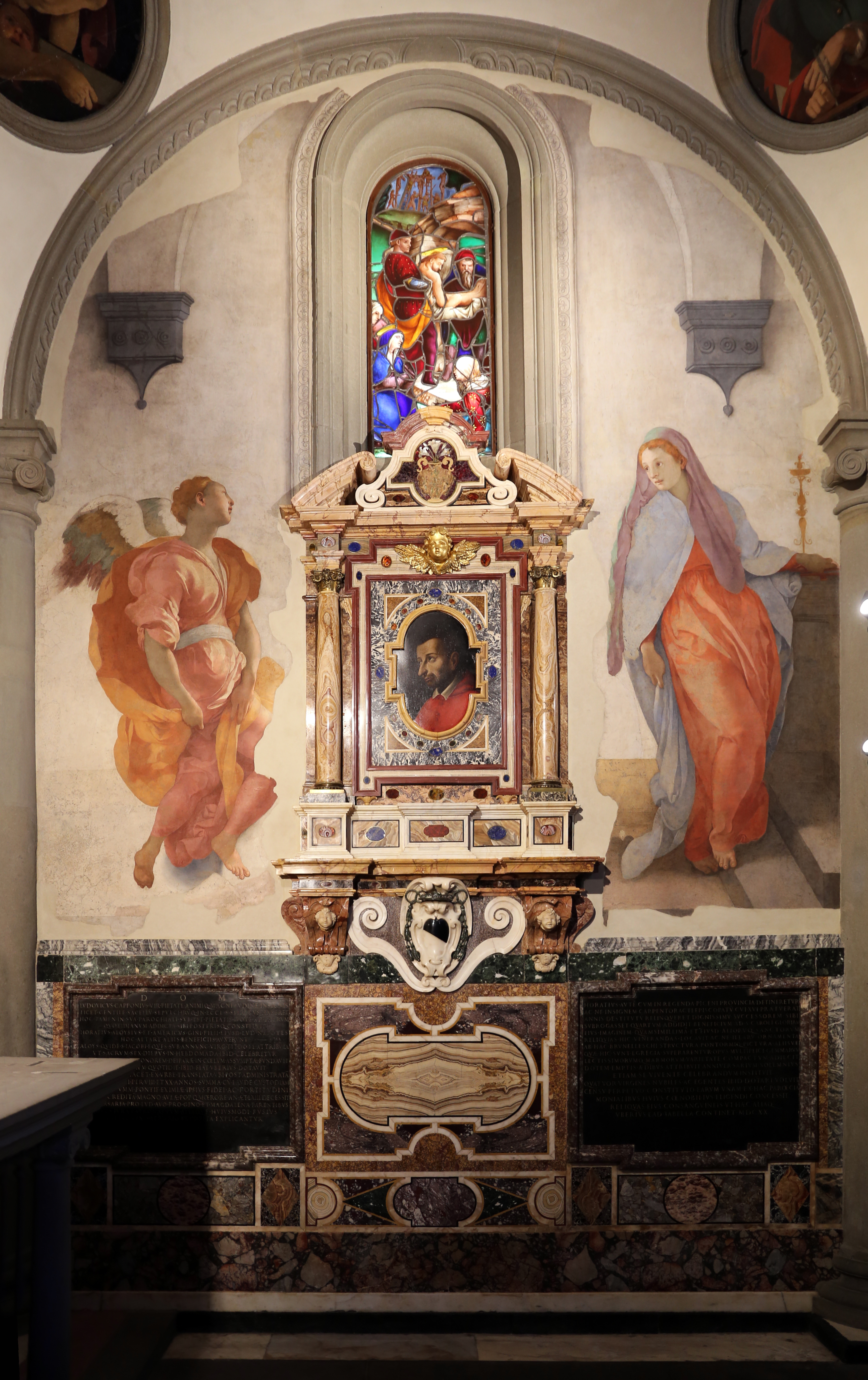 Santa Felicita (Florence) - Interior